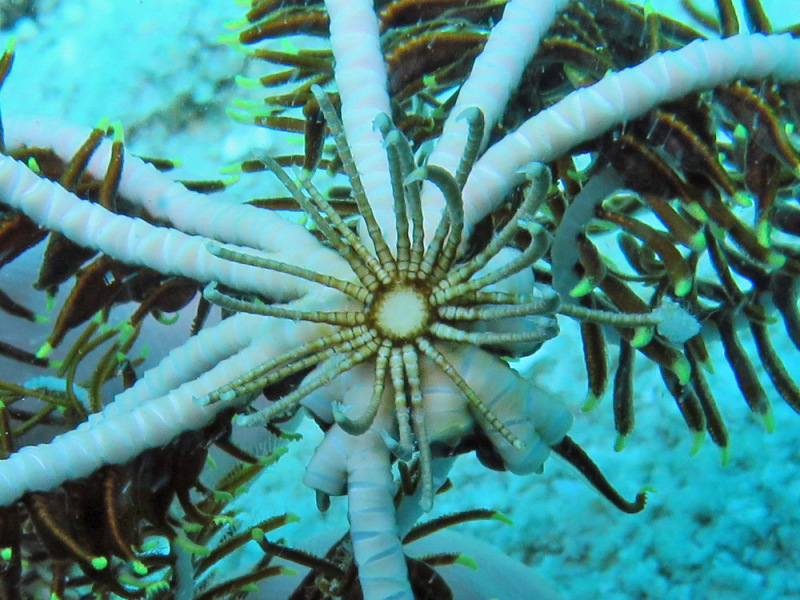 Underside of Comanthus wahlbergii at North Direction Island, showing ring of cirri surrounding the central plate.